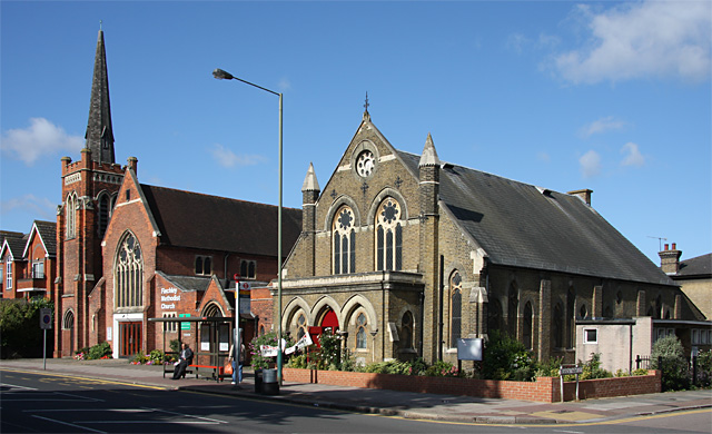 Finchley Methodist Church Located on Ballards Lane by the junction with Essex Park. The original chapel dates to 1879 when it opened as Wentworth Park Wesleyan chapel. It was designed by Charles Bell. The current church on the left is a much more recent building. Further historical details to be added after more research.